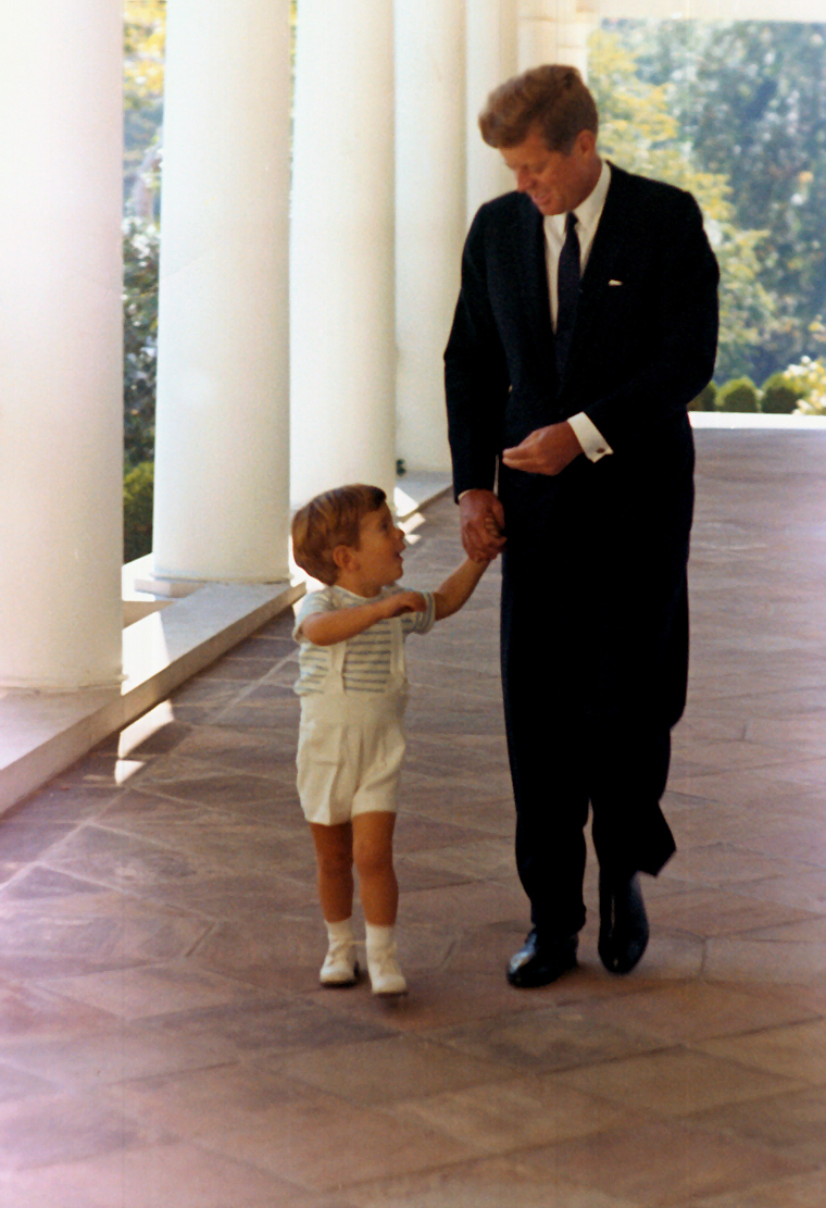 John F. Kennedy and John F. Kennedy, Jr. at the White House.